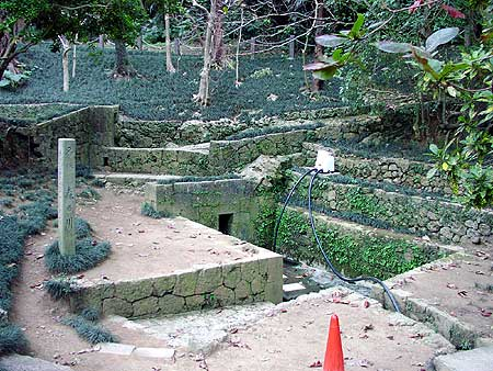 Mori-no-Kawa